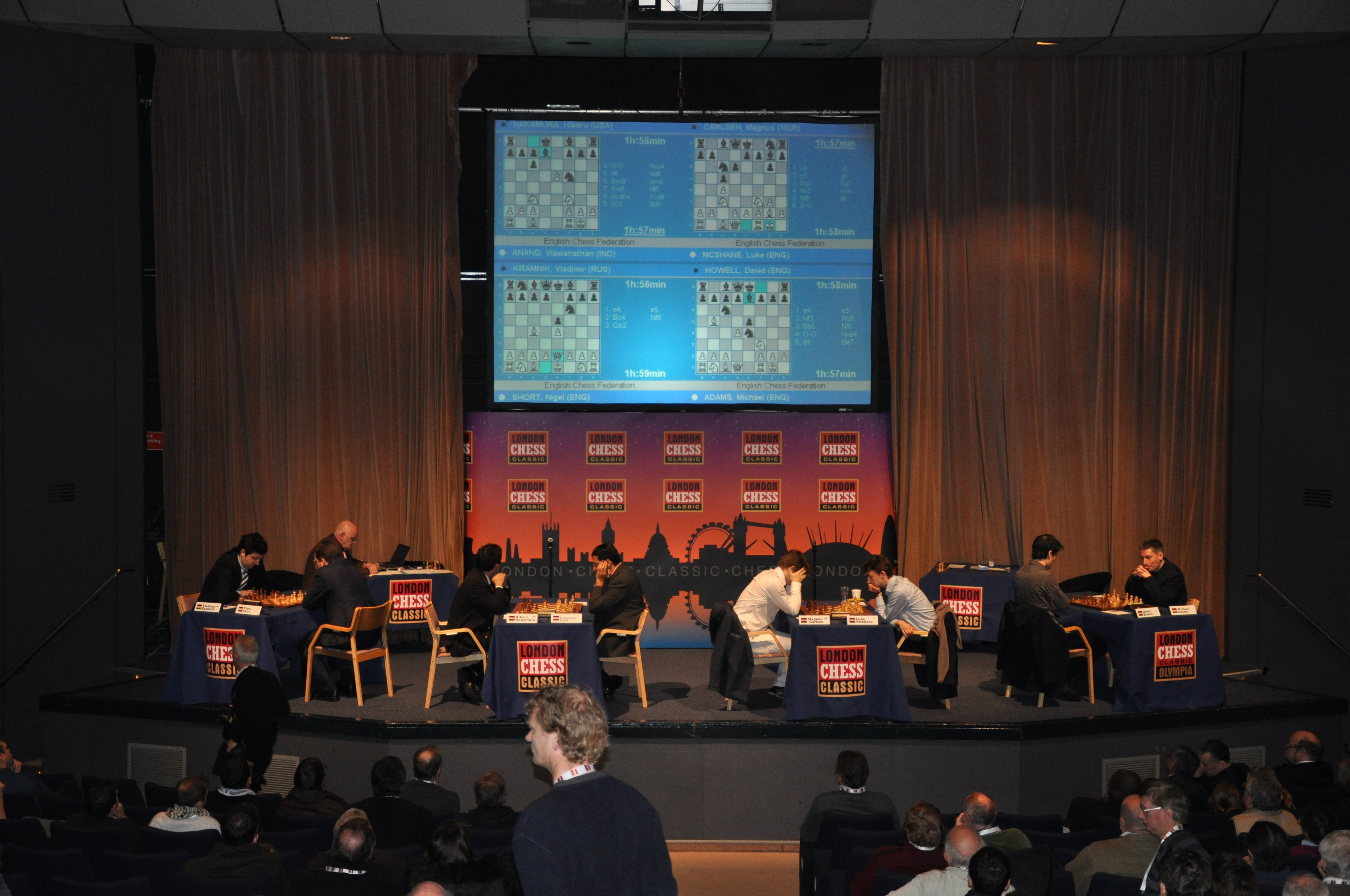 London Chess Classic 2010